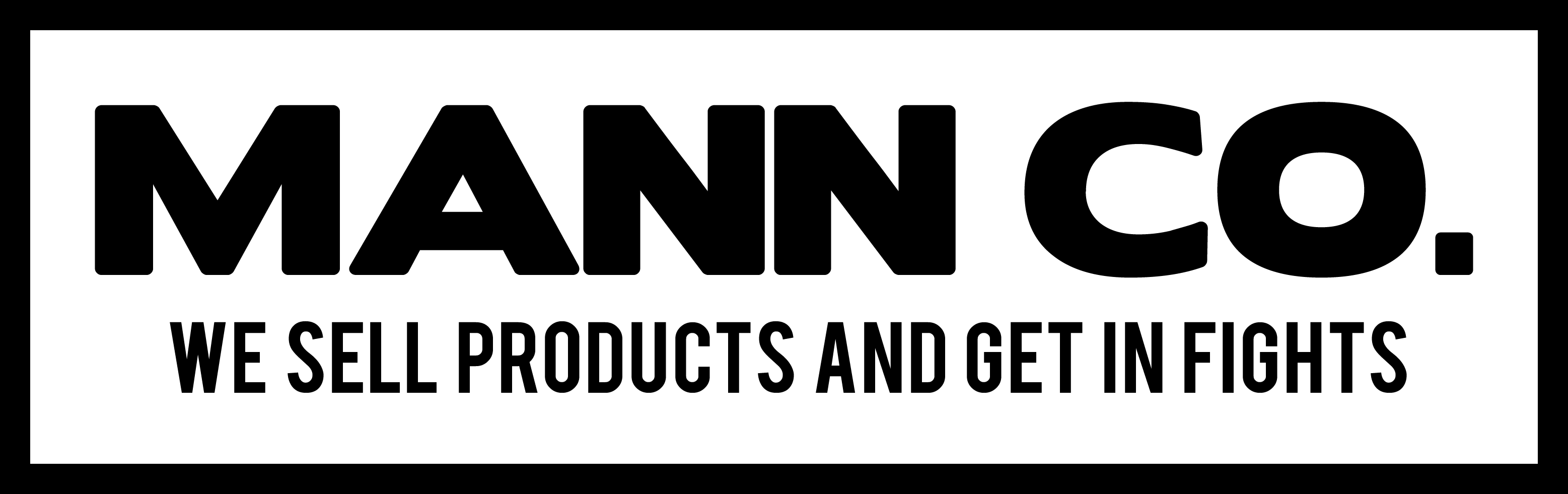 Logo of the Team Fortress 2 "Mann Co. store".